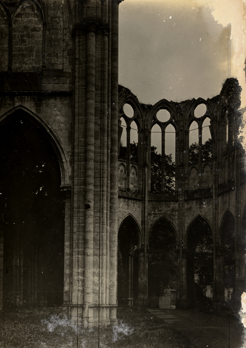 Abbey of Notre Dame (Oise), Chiry-Ourscamp, France, 1910. Exterior. Brooklyn Museum Archives, Goodyear Archival Collection (S03_06_01_008 image 1060). Help us map this image by using Suggestify to suggest a location for it.